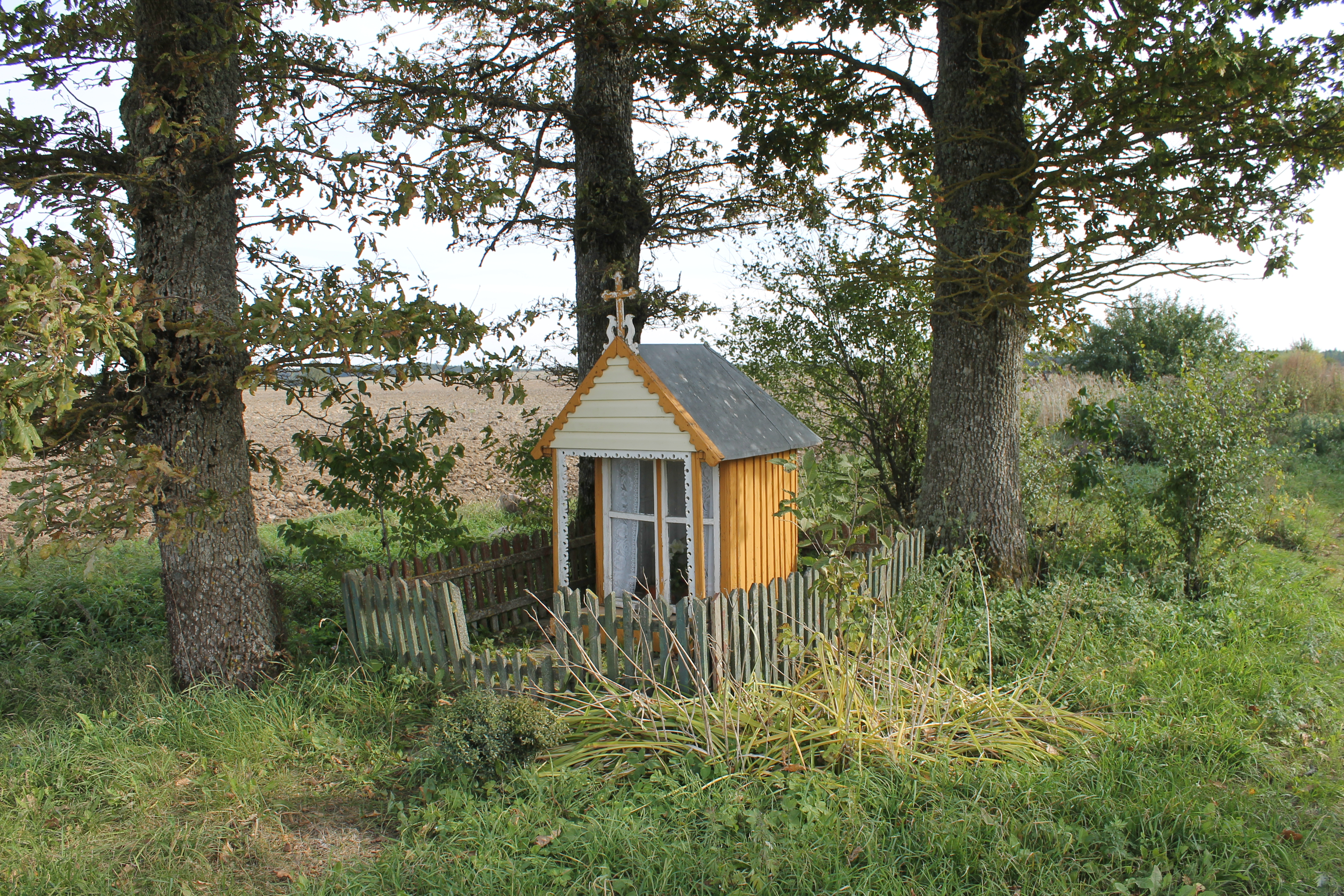 Žeimiai chapel, Kretinga district, LithuaniaLietuvių: Žeimių pakelės koplytėlė, Kretingos rajonas, Lietuva